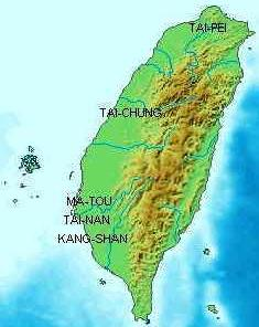 Map of Taiwan island and the Pescadores